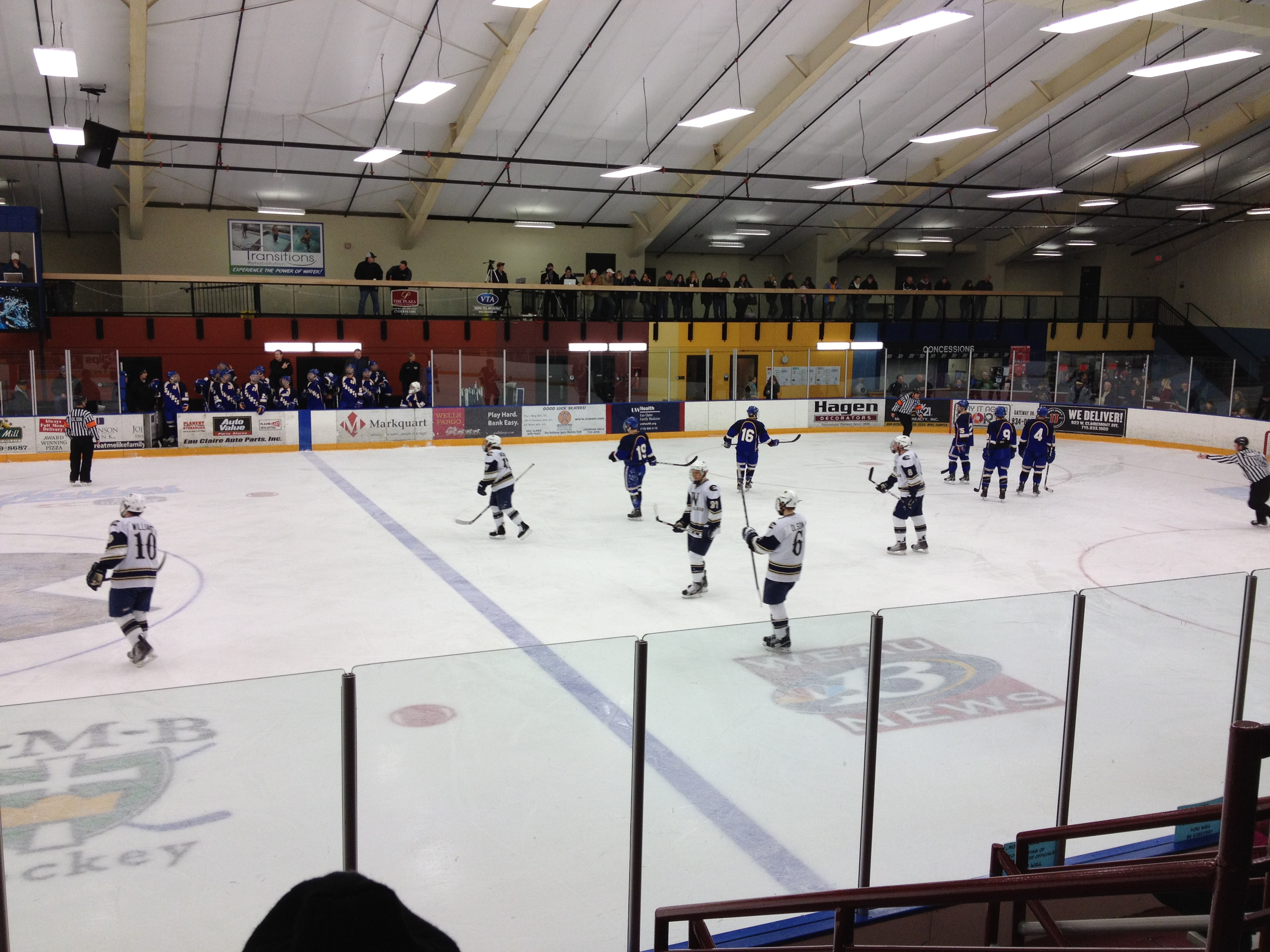 NCAA Division III men's ice hockey: The College of St. Scholastica (blue) vs. University of Wisconsin–Eau Claire (white) at Hobbs Municipal Ice Center in Eau Claire, Wisconsin. Picture taken on February 11, 2012.